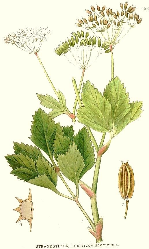 Original Description Strandsticka, Ligusticum scoticum L.